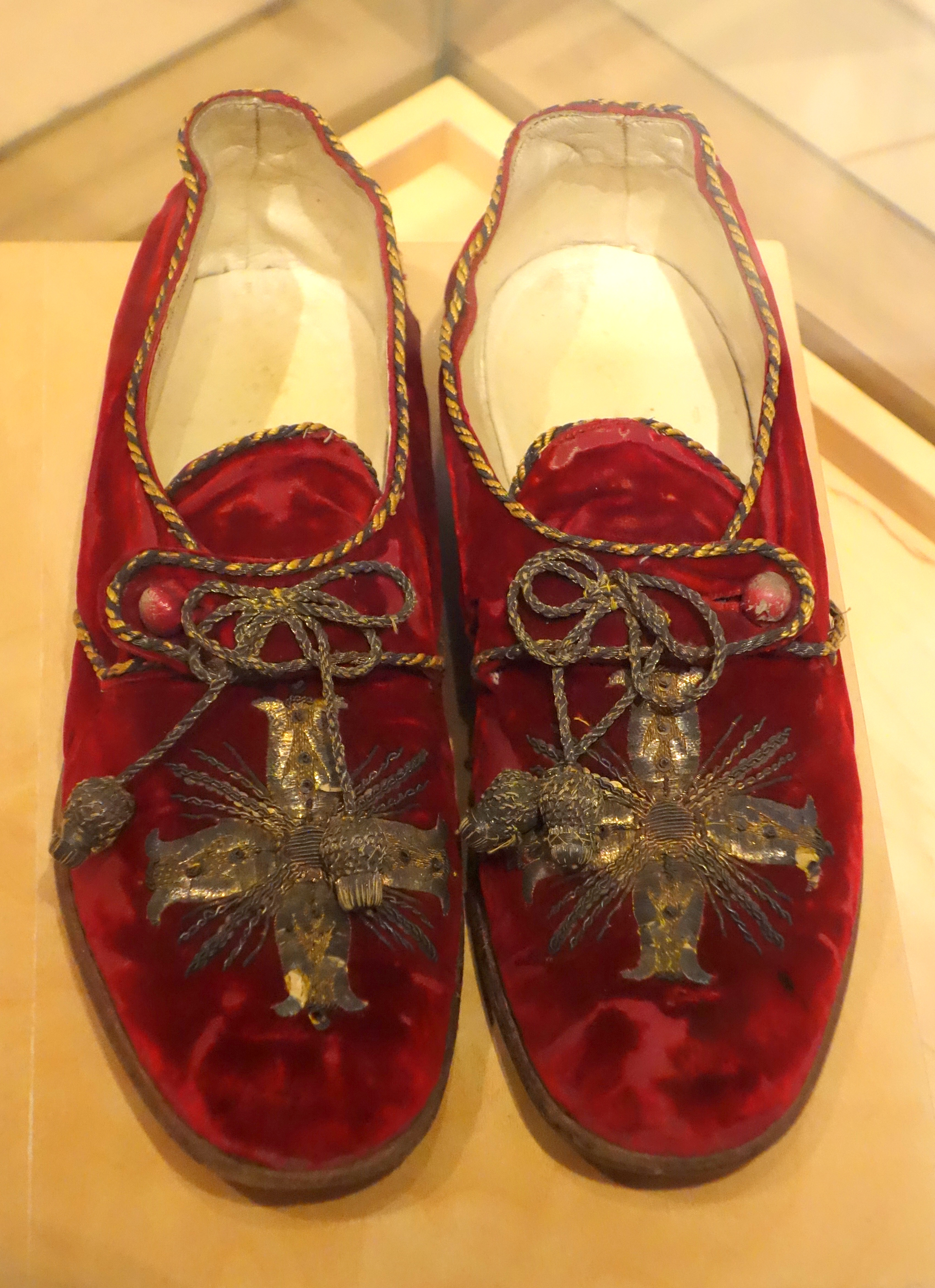 Exhibit in the Bata Shoe Museum, Toronto, Ontario, Canada. The museum permitted photography without restriction.